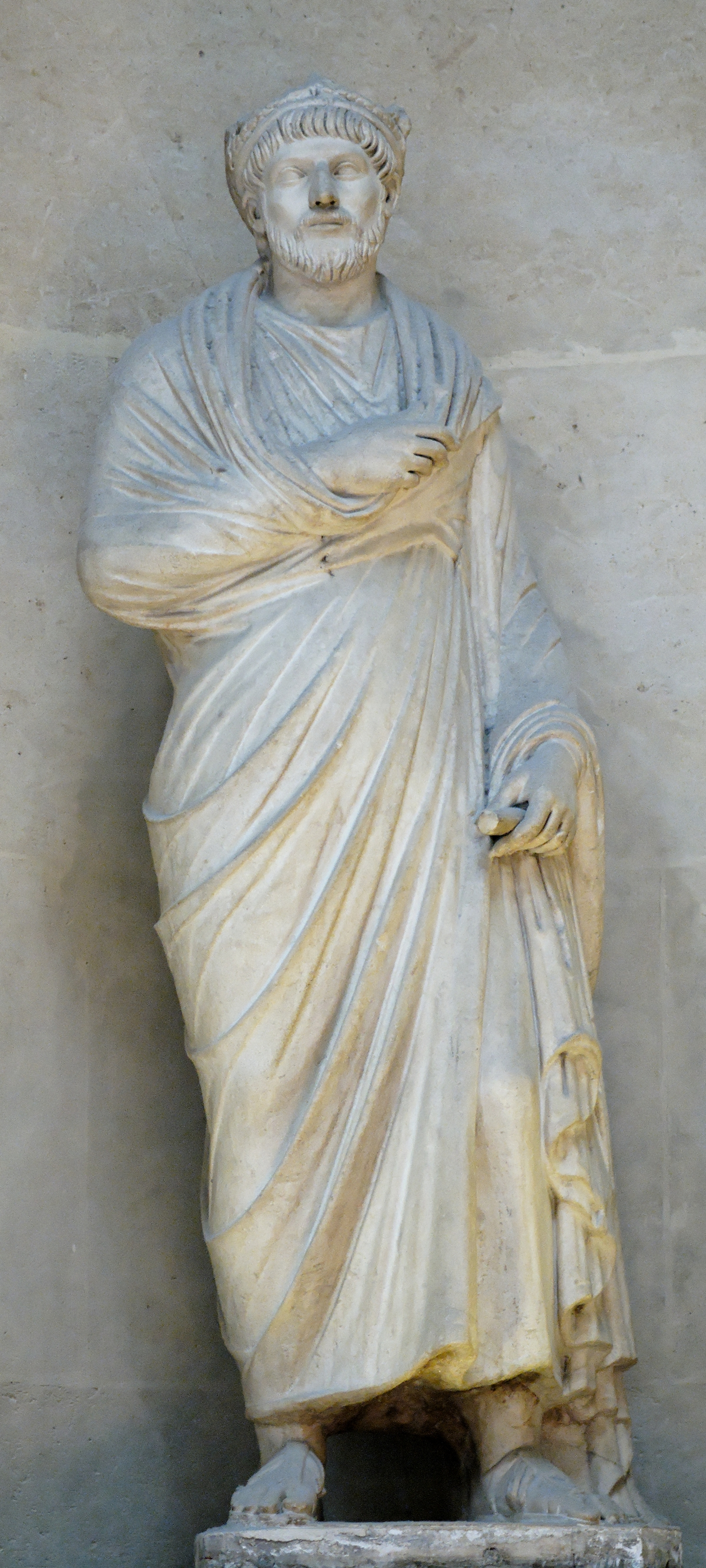 Statue of a priest of Sarapis wearing the pallium and a sacerdotal crown, formerly thought to be a representation of Julian the Apostate. Marble, modern copy (ca. 1790) after a Roman original from 120–130 AD.